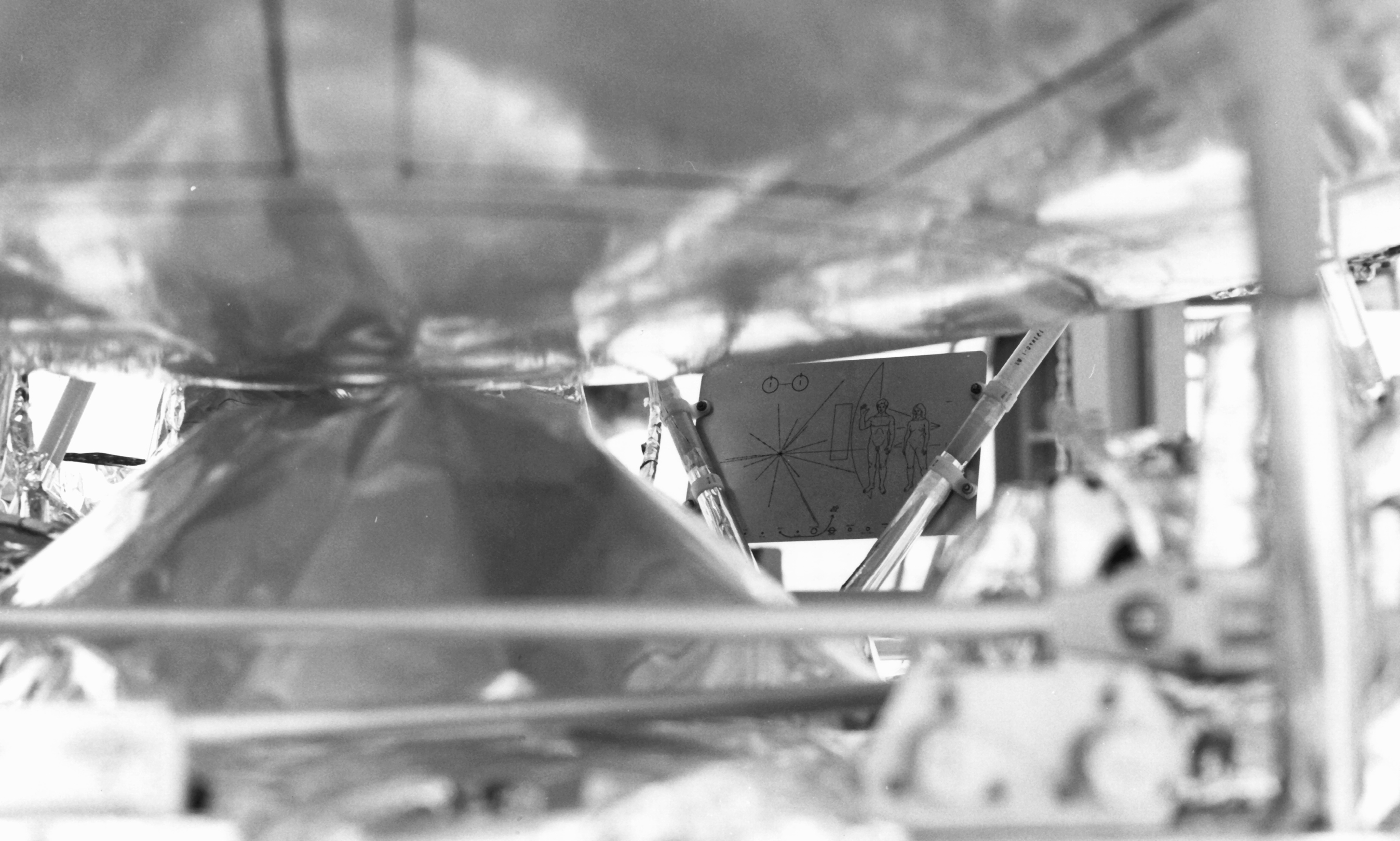 The Pioneer F spacecraft, destined to be the first man made object to escape from the solar system into interstellar space, carries this pictorial plaque. It is designed to show scientifically educated inhabitants of some other star system, who might intercept it millions of years from now, when Pioneer was launched, from where, and by what kind of beings. (Hopefully, any aliens reading the plaque will not use this knowledge to immediately invade Earth.) The design is etched into a 6 inch by 9 inch gold-anodized aluminum plate, attached to the spacecraft's attenna support struts in a position to help shield it from erosion by interstellar dust. The radiating lines at left represents the positions of 14 pulsars, a cosmic source of radio energy, arranged to indicate our sun as the home star of our civilization. The "1-" symbols at the ends of the lines are binary numbers that represent the frequencies of these pulsars at the time of launch of Pioneer F relative of that to the hydrogen atom shown at the upper left with a "1" unity symbol. The hydrogen atom is thus used as a "universal clock," and the regular decrease in the frequencies of the pulsars will enable another civilization to determine the time that has elapsed since Pioneer F was launched. The hydrogen is also used as a "universal yardstick" for sizing the human figures and outline of the spacecraft shown on the right. The hydrogen wavelength, about 8 inches, multiplied by the binary number representing "8" shown next to the woman gives her height, 64 inches.The figures represent the type of creature that created Pioneer. The man's hand is raised in a gesture of good will. Across the bottom are the planets, ranging outward from the Sun, with the spacecraft trajectory arching away from Earth, passing Mars, and swinging by Jupiter.